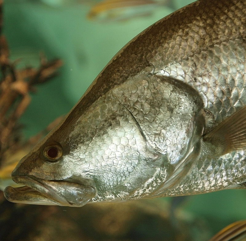 Japanese lates at Himeji Aquarium